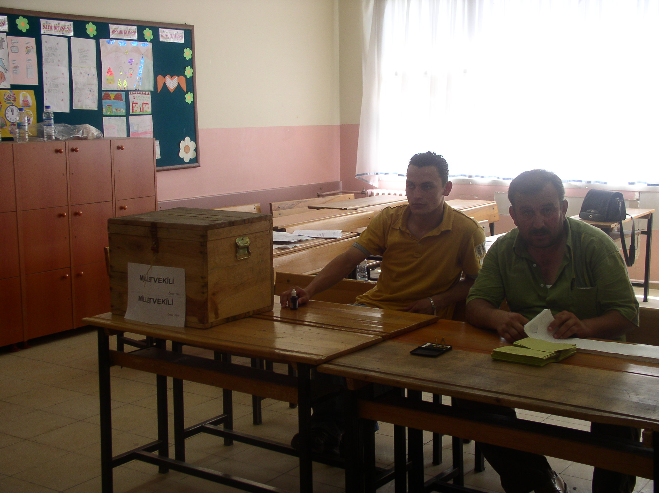 Voting Ballot box